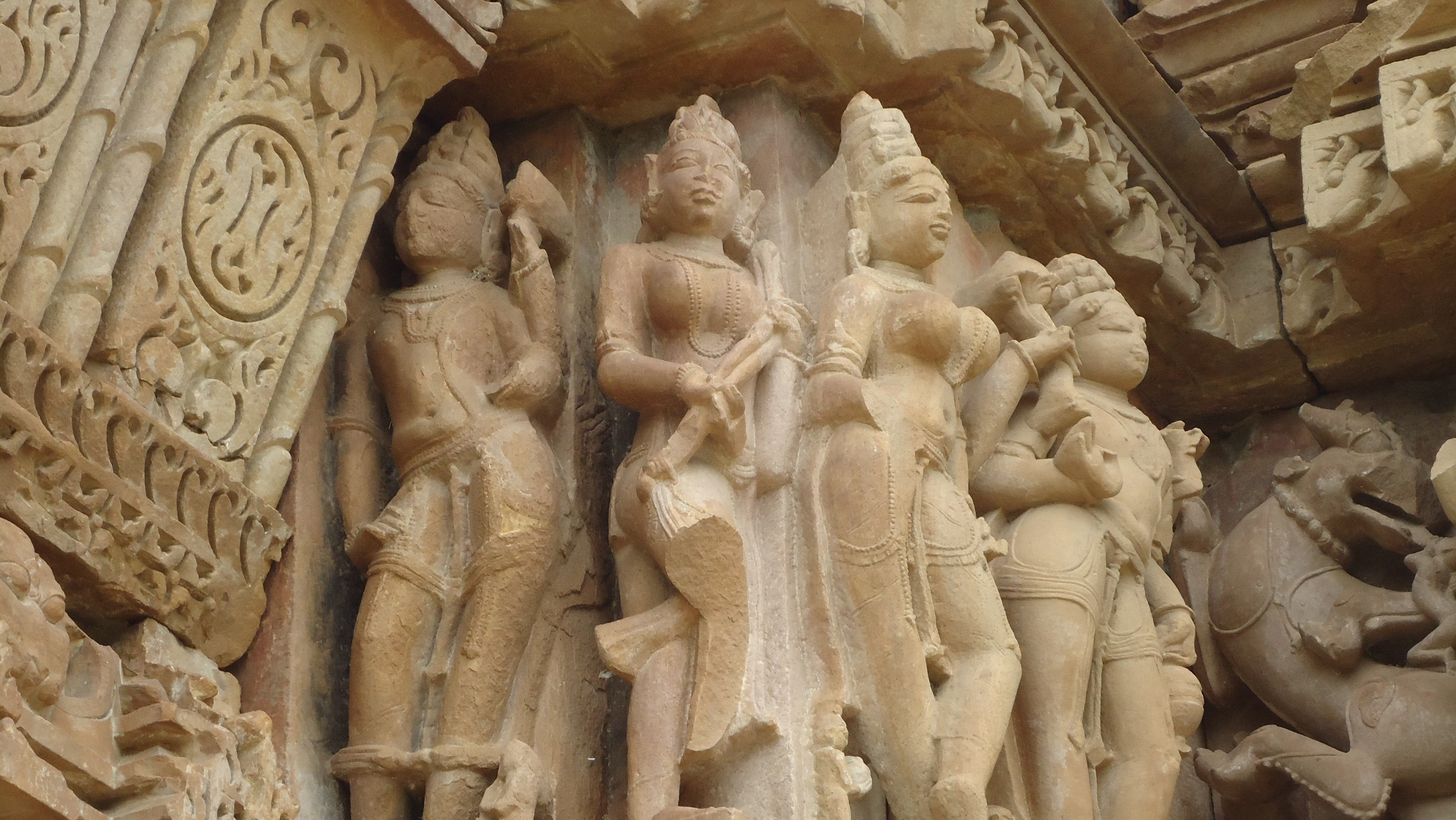 Brown bodies